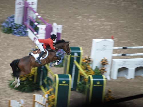 2007 FEI World Cup Show Jumping: Richard Spooner (USA) and Cristallo (1998 Holsteiner gelding by Caletto II)